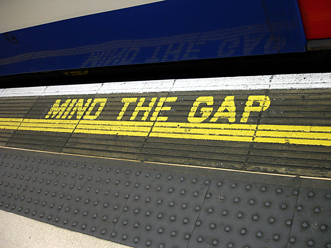 "Mind the Gap", Waterloo station, on the Bakerloo line of the London Underground.